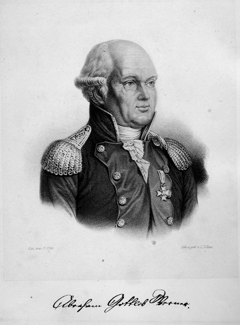 Engraved portrait of German scientist Abraham Gottlob Werner, the founder of modern mineralogy.